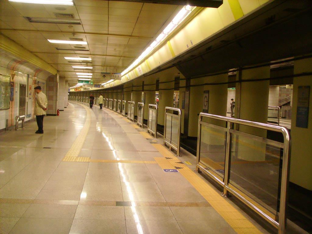 Ganseogogeori Station (Incheon Subway #1), Incheon City, S. Korea